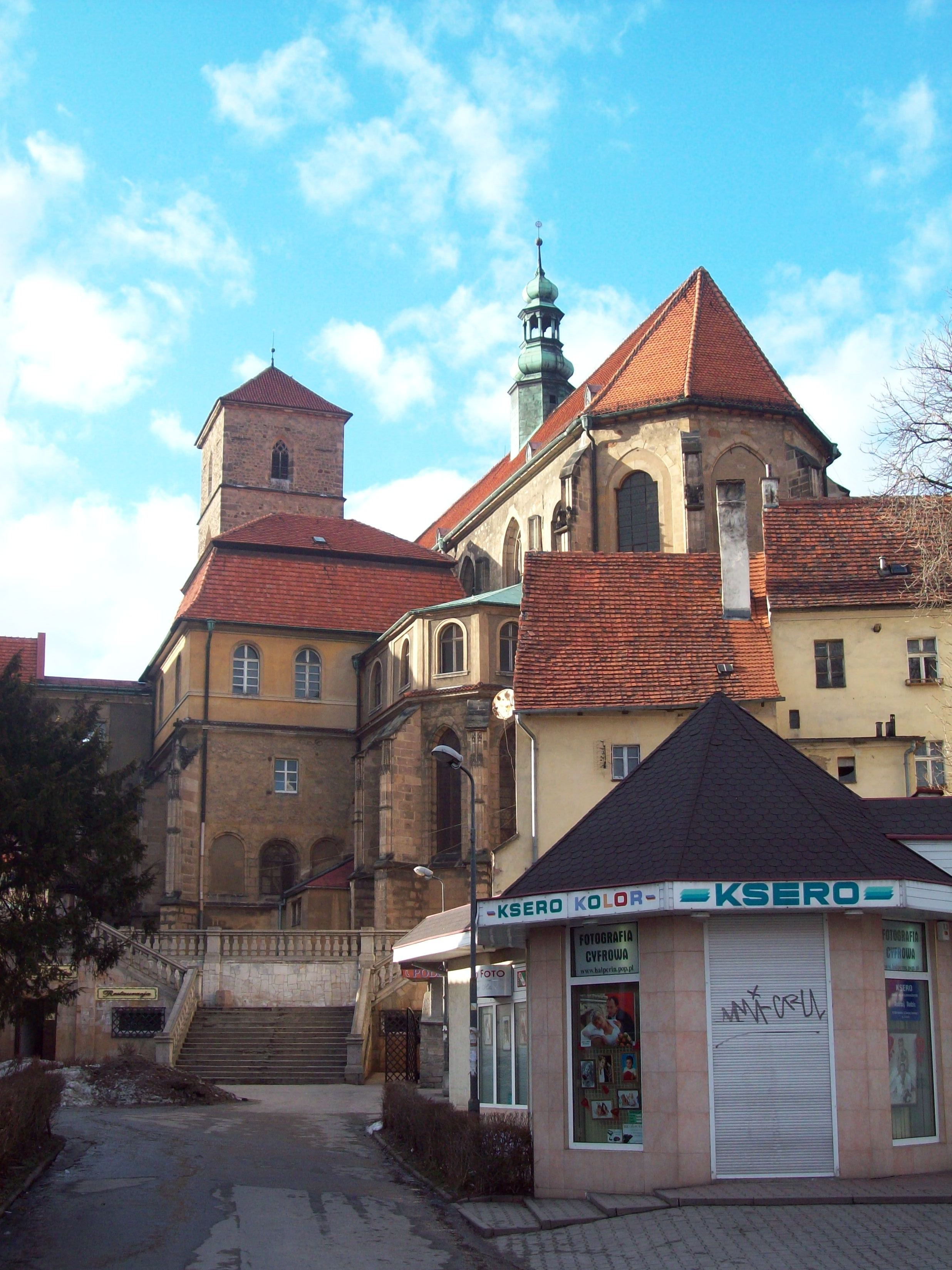 Church of the Assumption of the Blessed Virgin Mary in Kłodzko, view from the Zawiszy Czarnego Street.